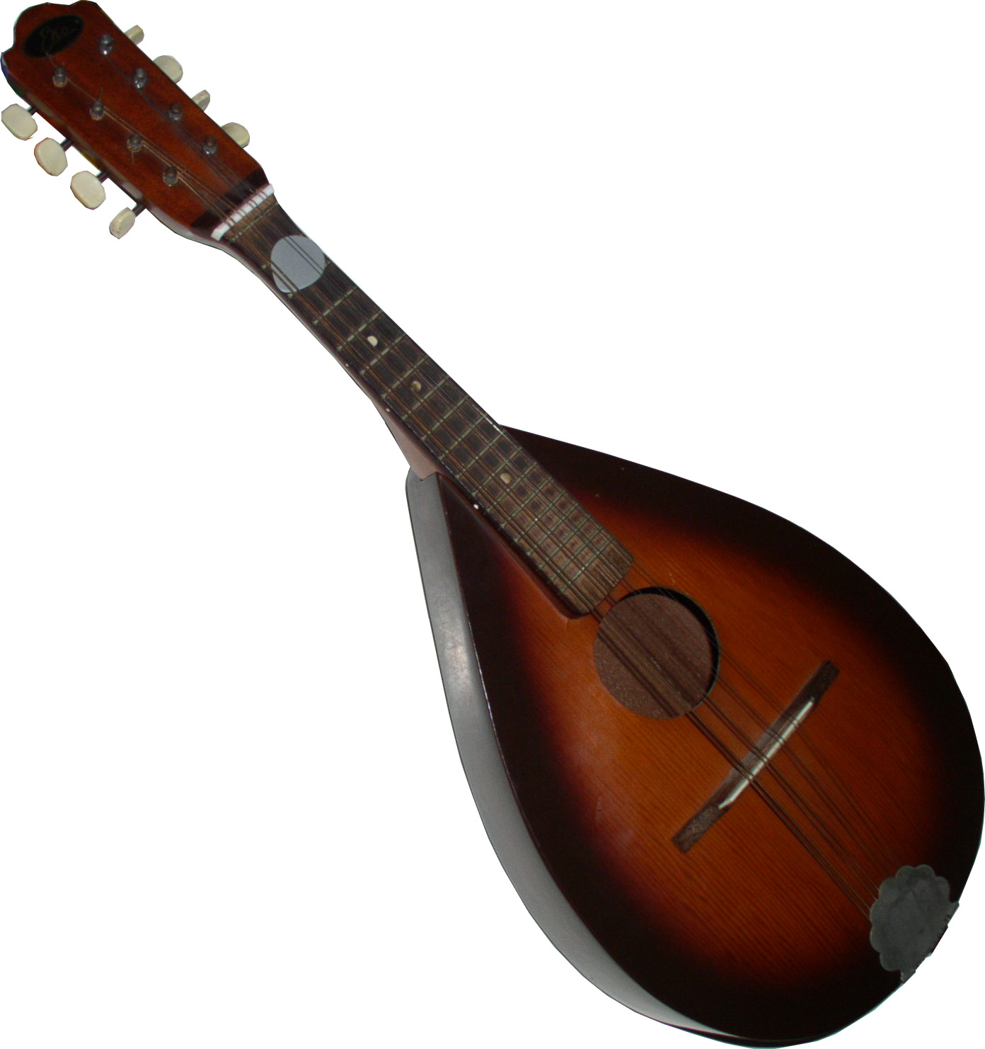 Mandolin own picture